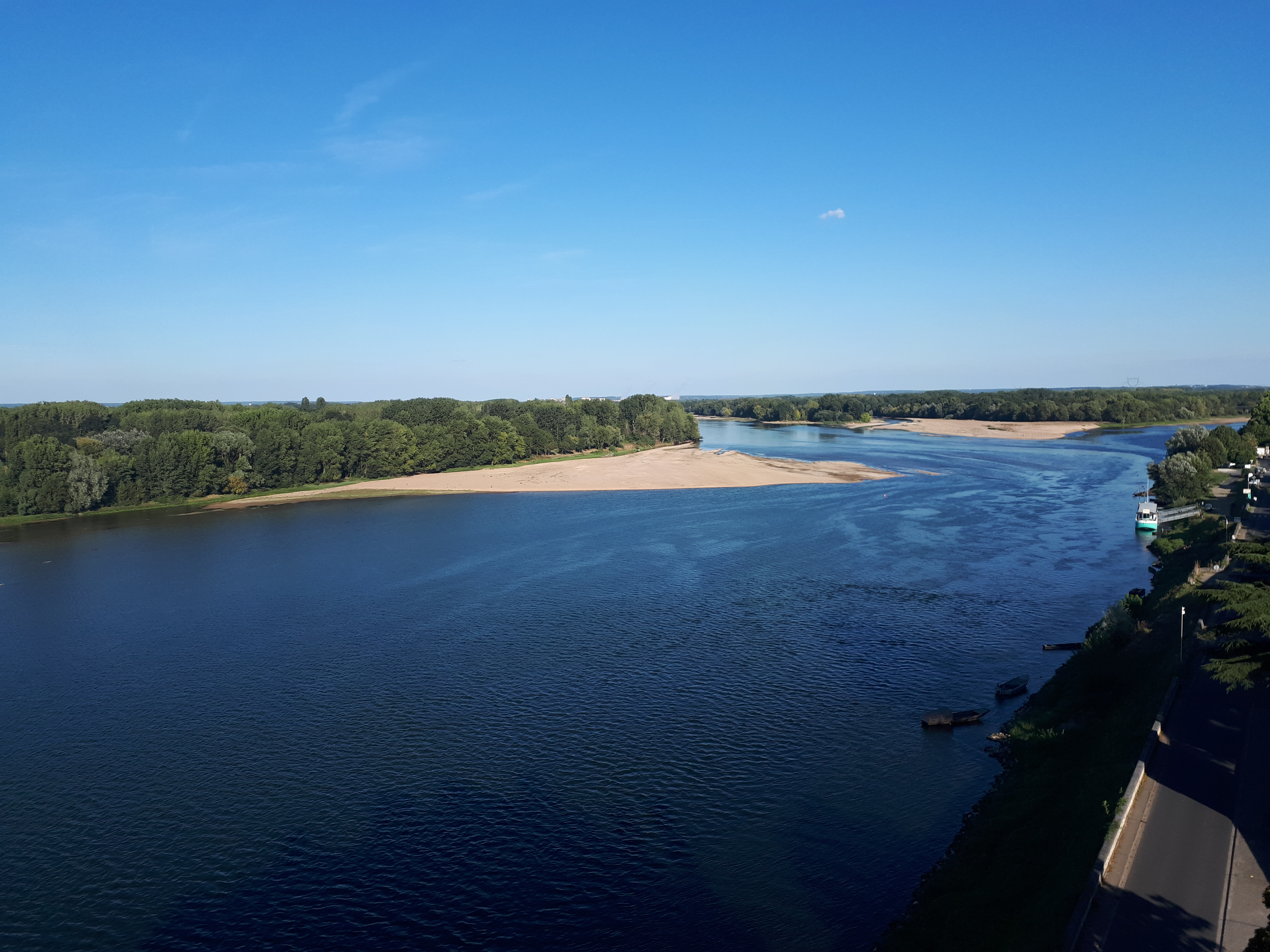 Panoramic view of the Loire River from the terrasse of the Chateau de Montsoreau-Museum of contemporary art France, Loire Valley, Unesco World Heritage